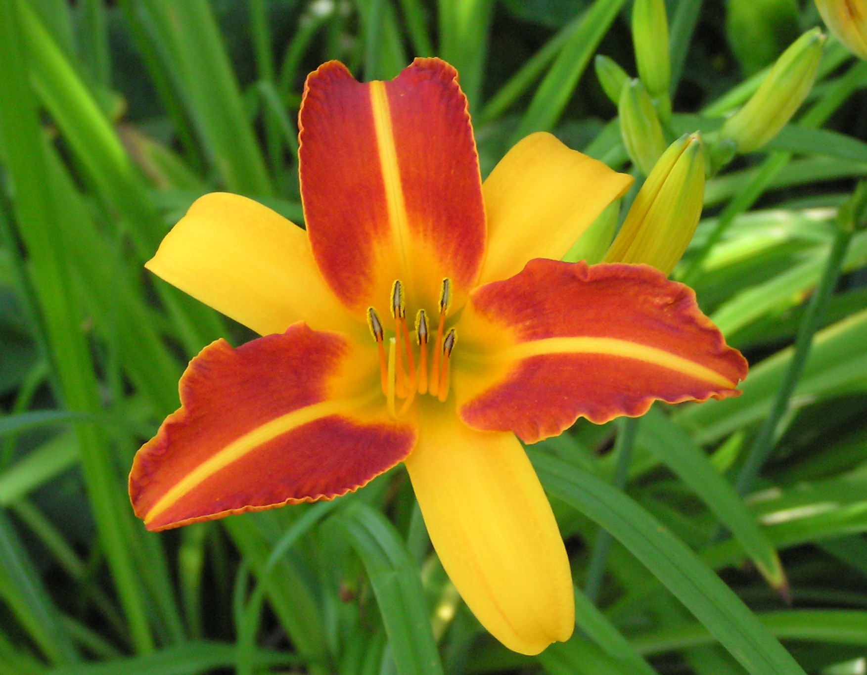 Hemerocallis sp.